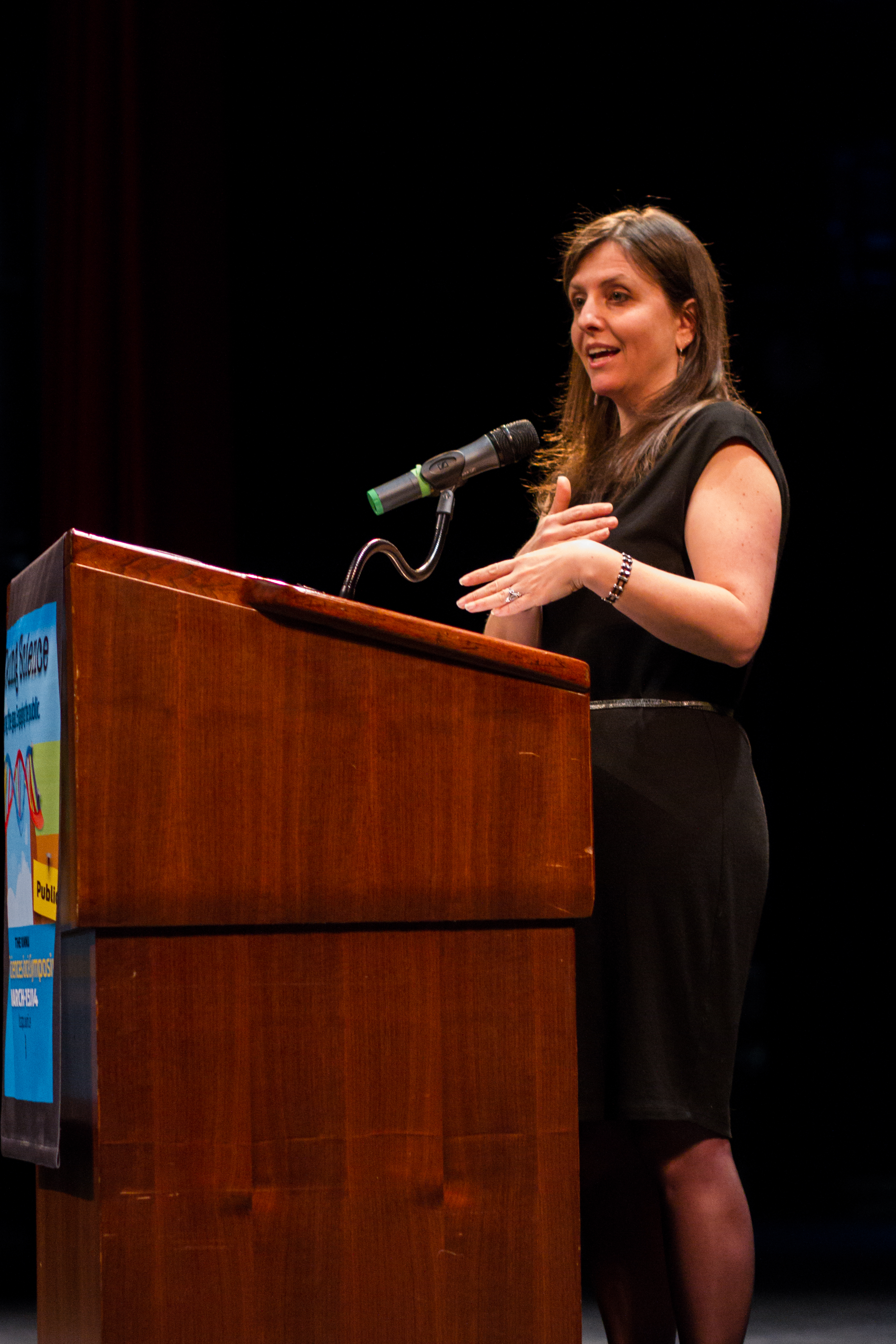 Rebecca Skloot kicks off the 10th Annual Life Sciences and Society Symposium (LSSP) at the University of Missouri in Jesse Hall.